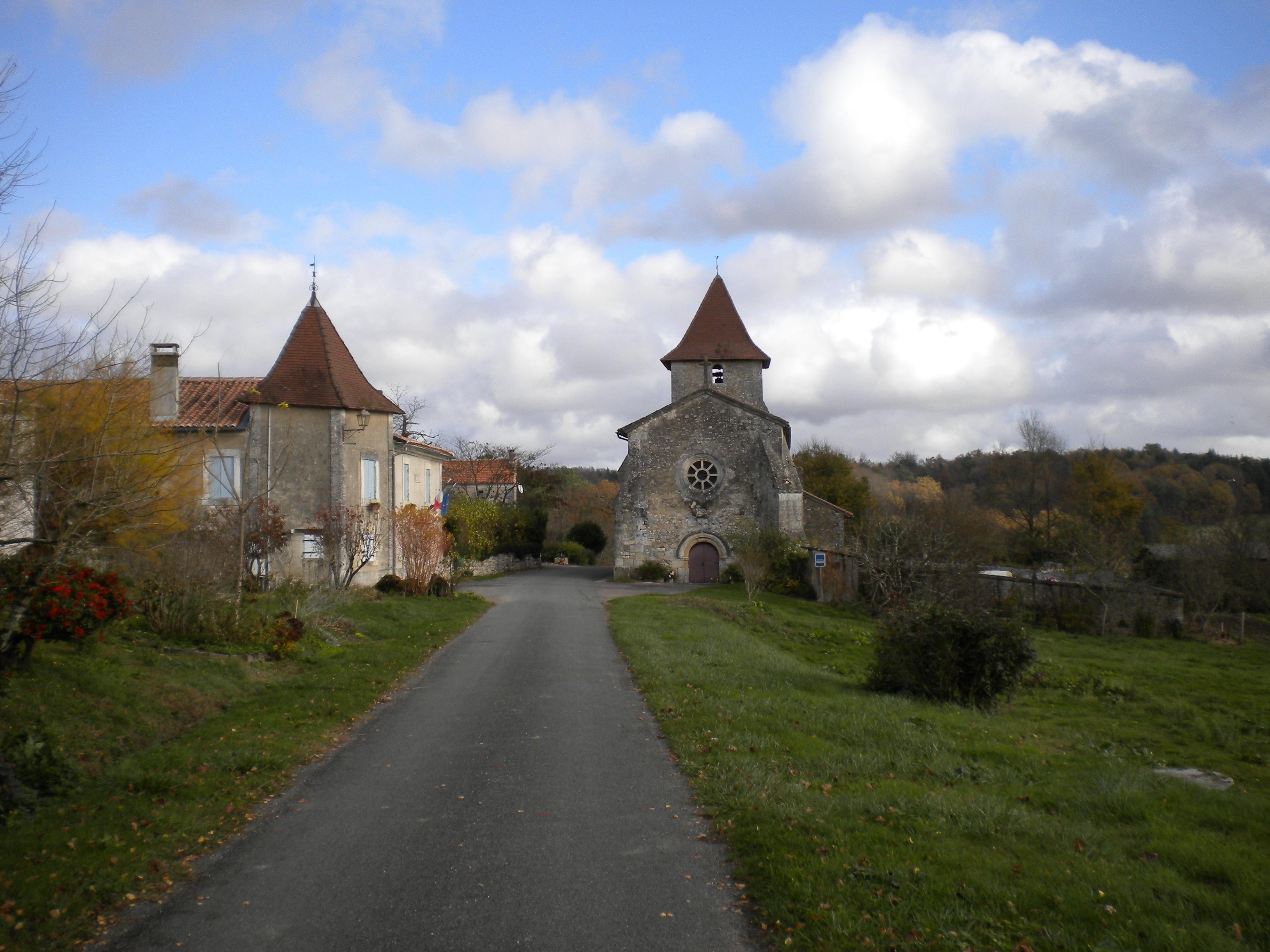 Church and village center of Saint-Félix-de-Bourdeilles, Dordogne, France.